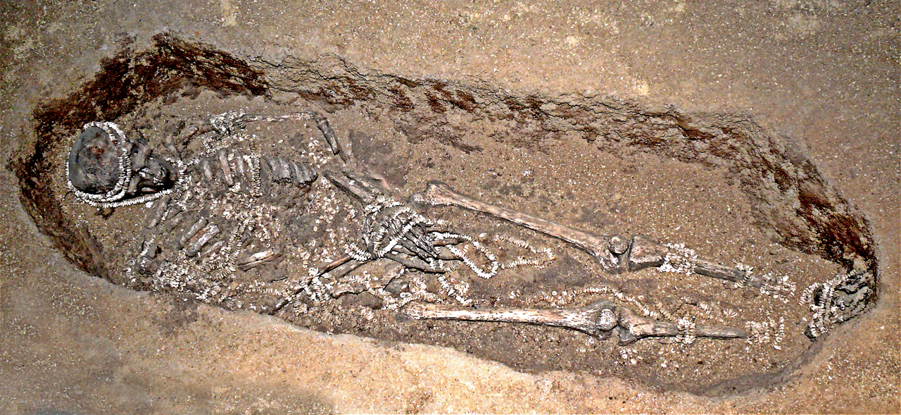 Man in an Upper Paleolithic burial in Sunghir, Russia. The site is approximately 28,000 to 30,000 years old